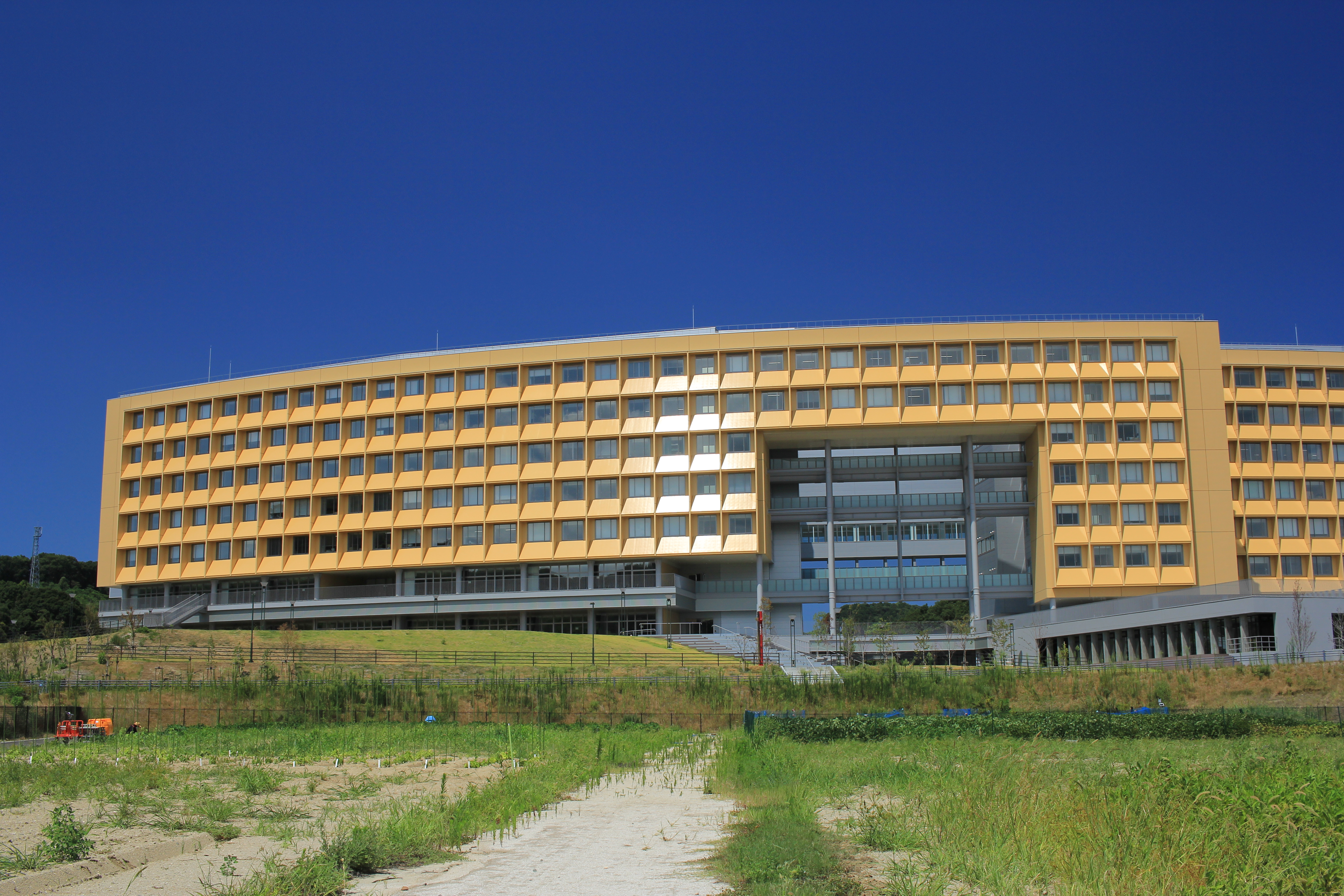 West Zone 5, Ito Campus, Kyushu University Canon EOS 60D